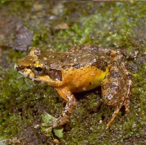 Mantidactylus betsileanus